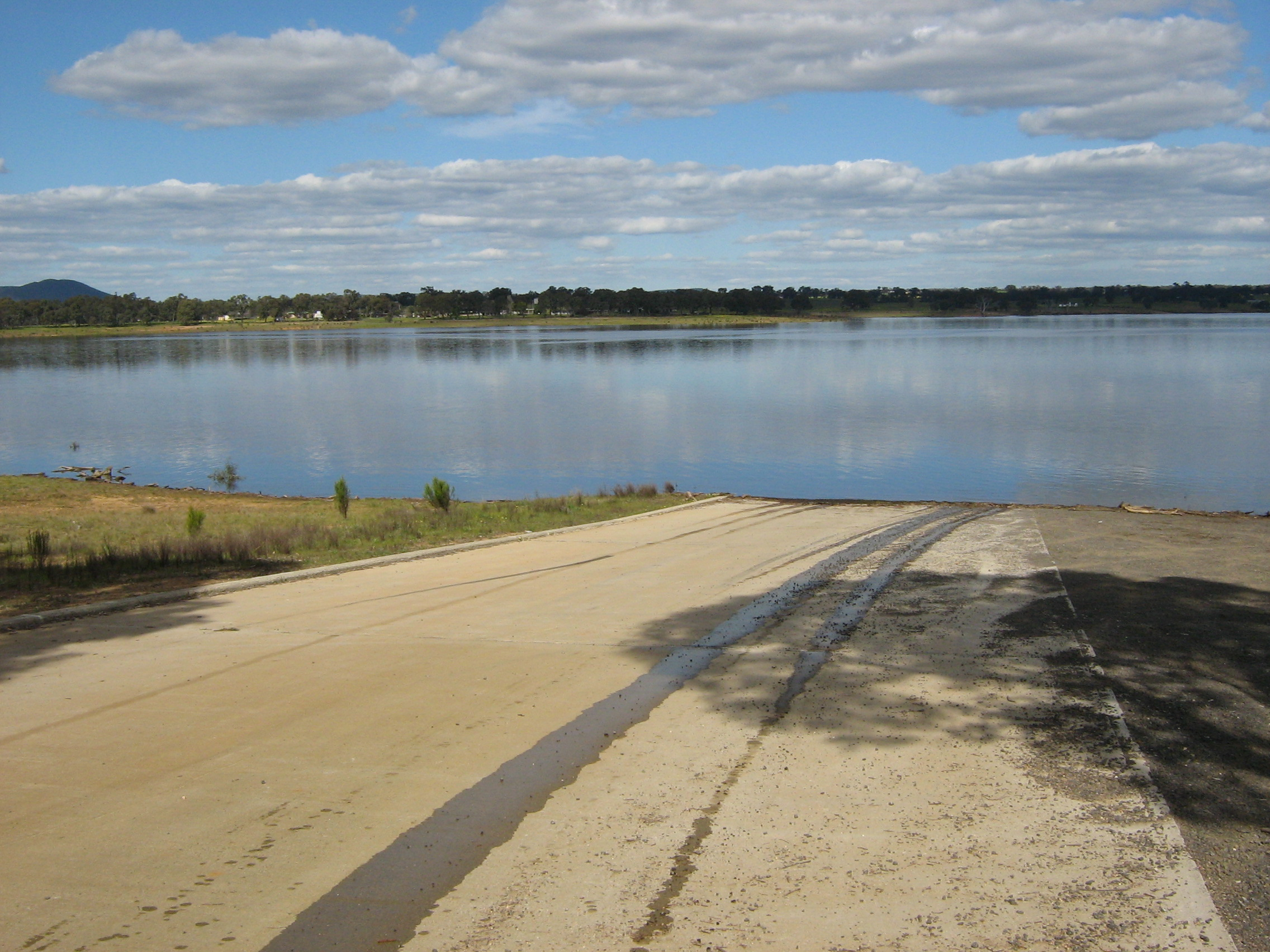 Derrinal Pool Boat Ramp @ Lake Eppalock, Victoria, Australia